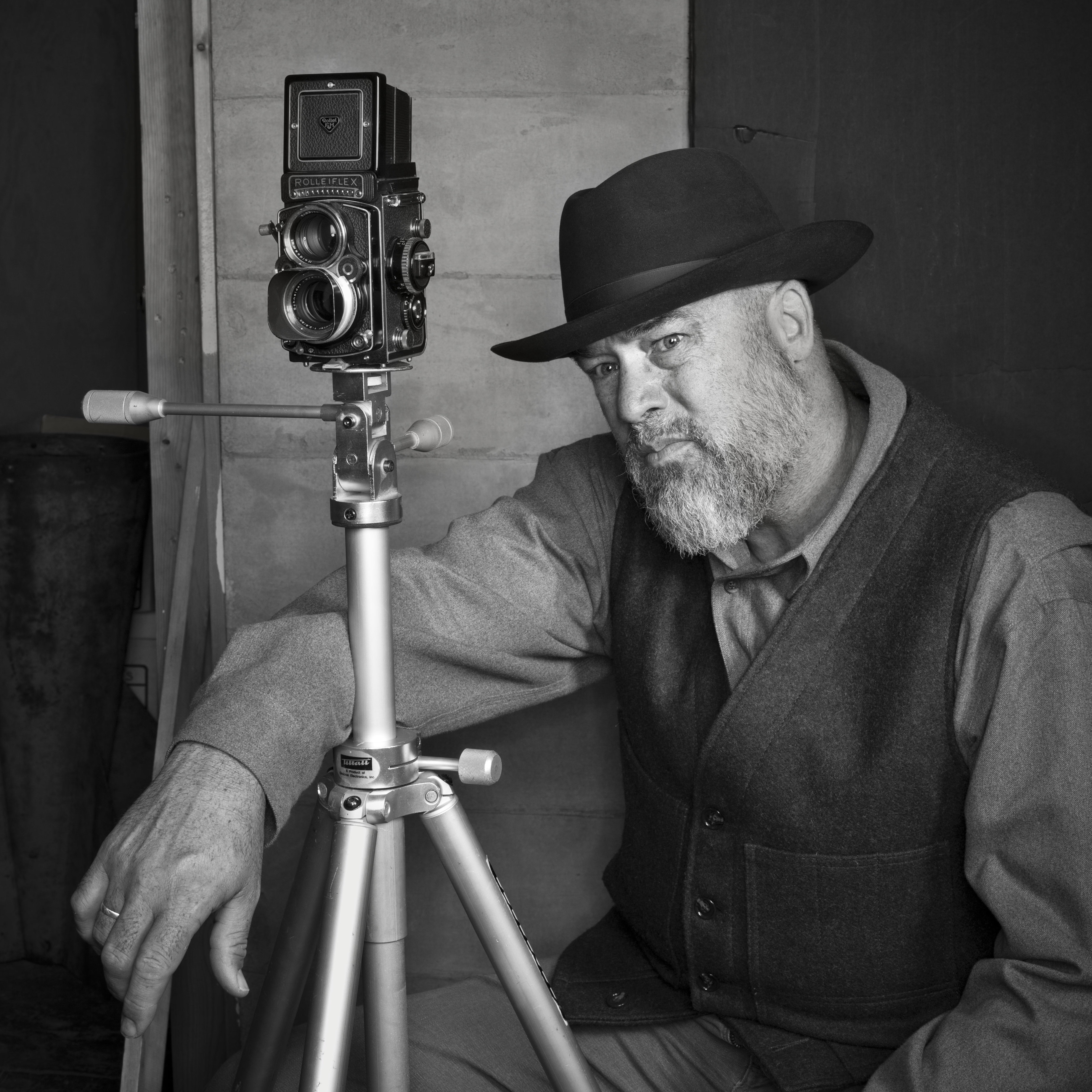 Behind the Scenes photo of Dan Winters on set